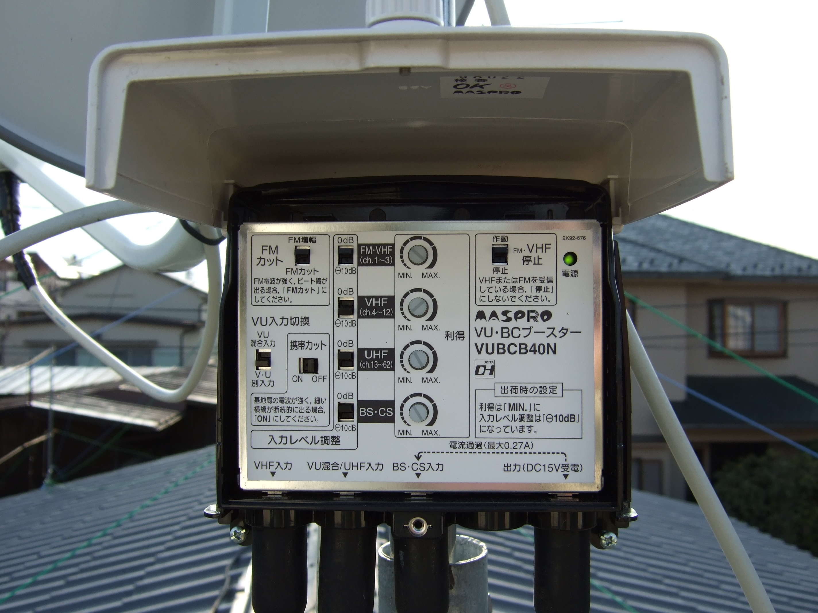 Inner view of an RF preamplifier Maspro Denkoh Corp. VUBCB40N. It can be continuously vary the gain of each internal RF amplifier, for VHF, for UHF and for satellite, and switched some parameters.